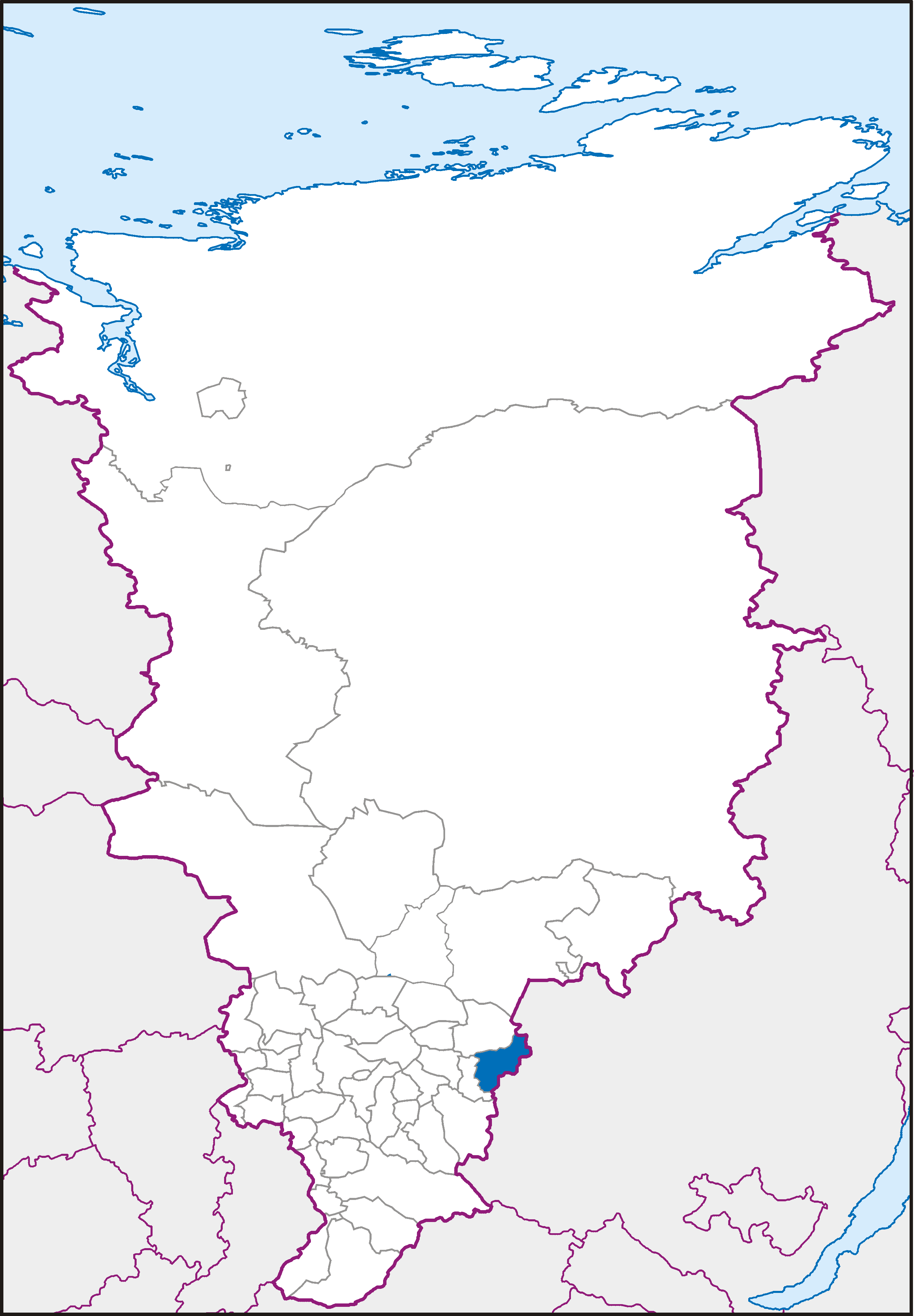 Map of Krasnoyarsk Krai in Albers Equal-Area Conic projection (Central Meridian = 95° E)